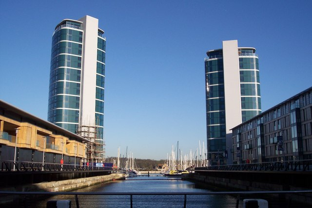 The Quays, Chatham Dockside Seen from Dock Head Road. These two large apartment buildings are nearly finished. for more details.